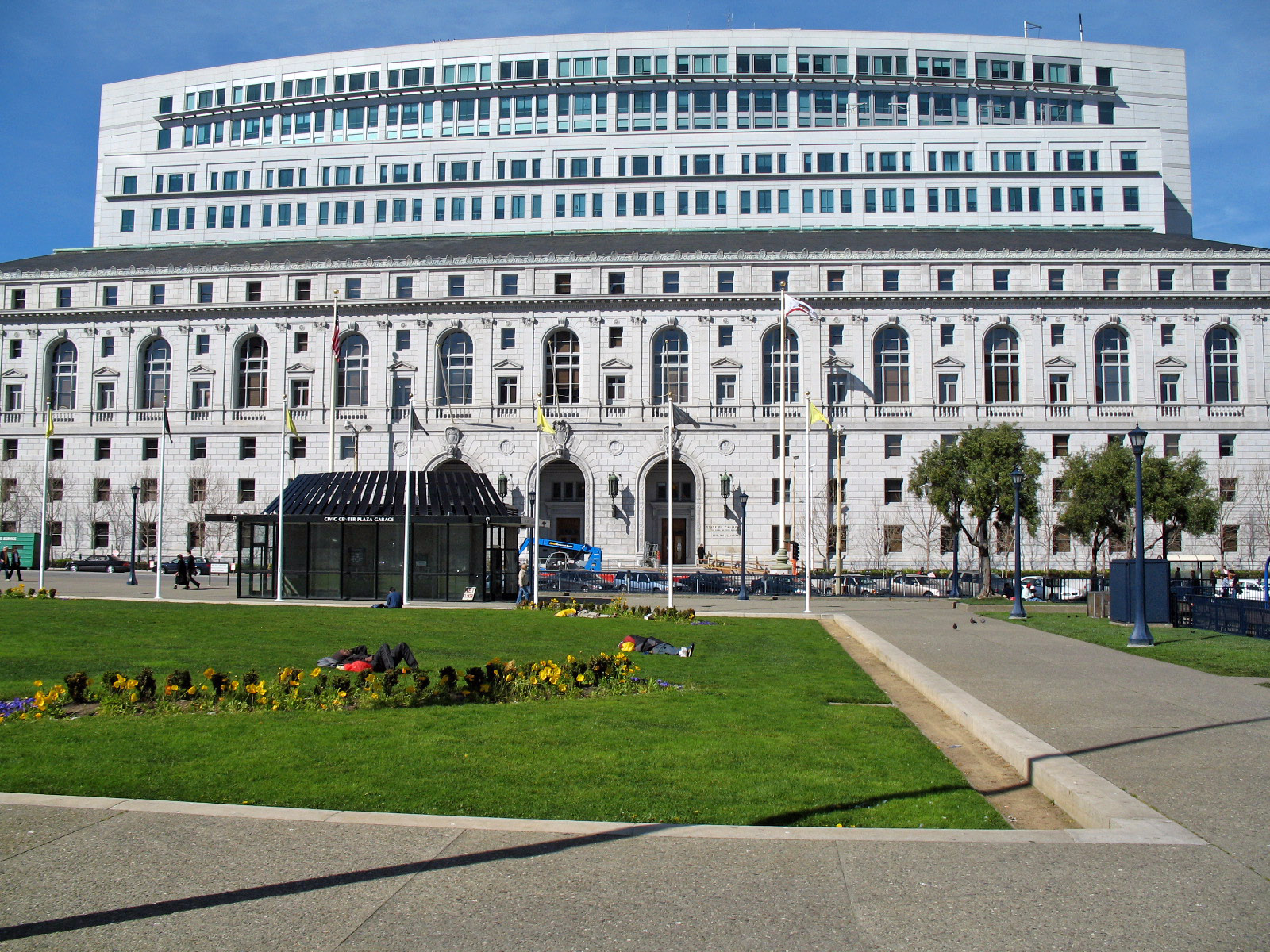 Earl Warren Building and Courthouse (former California State Building), with new State Office Building tower behind it, at 350 McAllister St., San Francisco, California, USA. The Warren Building is a contributing property in the San Francisco Civic Center Historic District, a National Historic Landmark, and on the National Register of Historic Places in San Francisco. Photographed 2008-03-02 by Mike Hofmann from Civic Center Plaza.